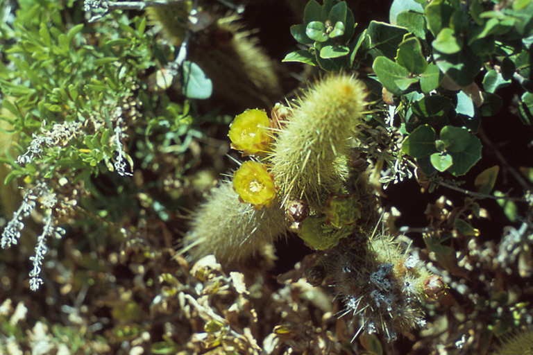 Bergerocactus emoryi